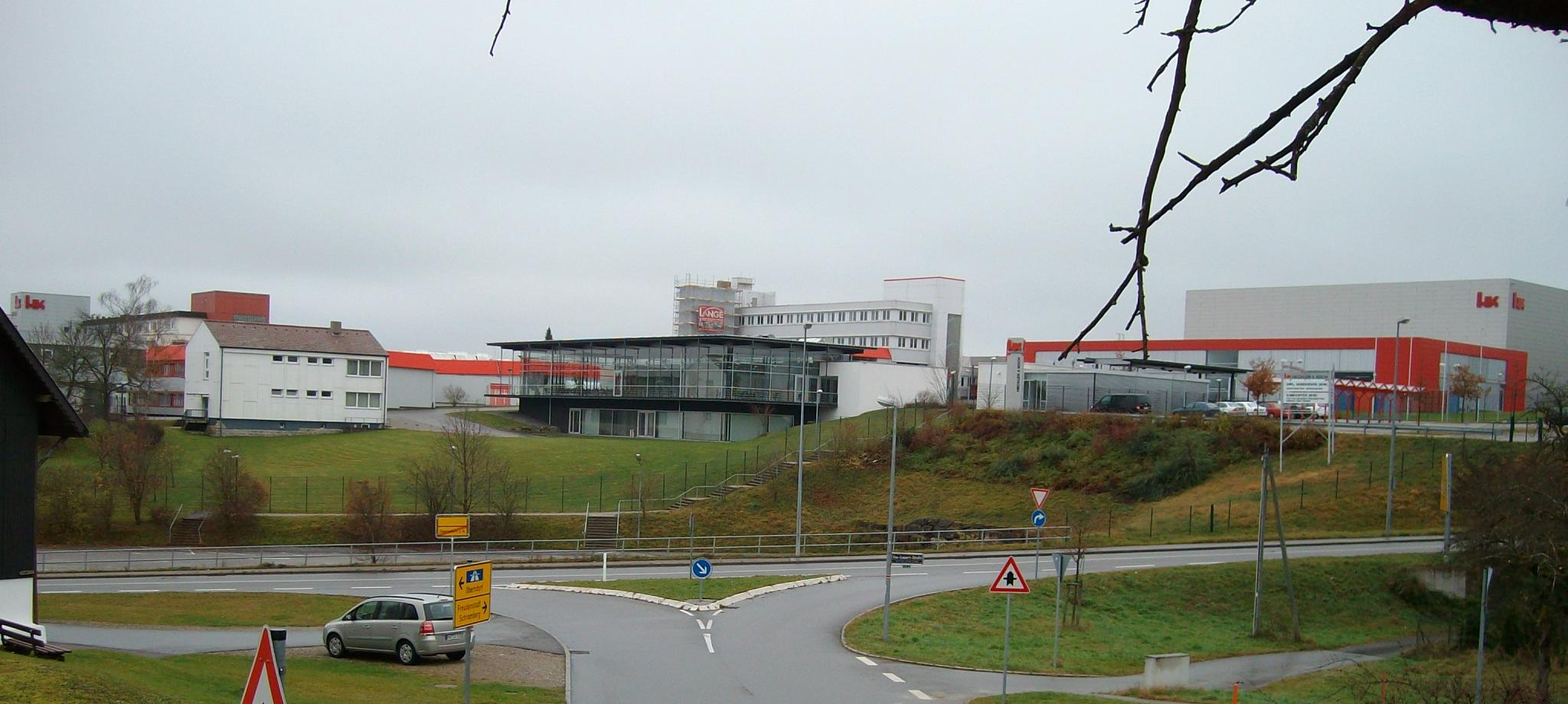 Heckler & Koch, Oberndorf-Lindenhof, Germany